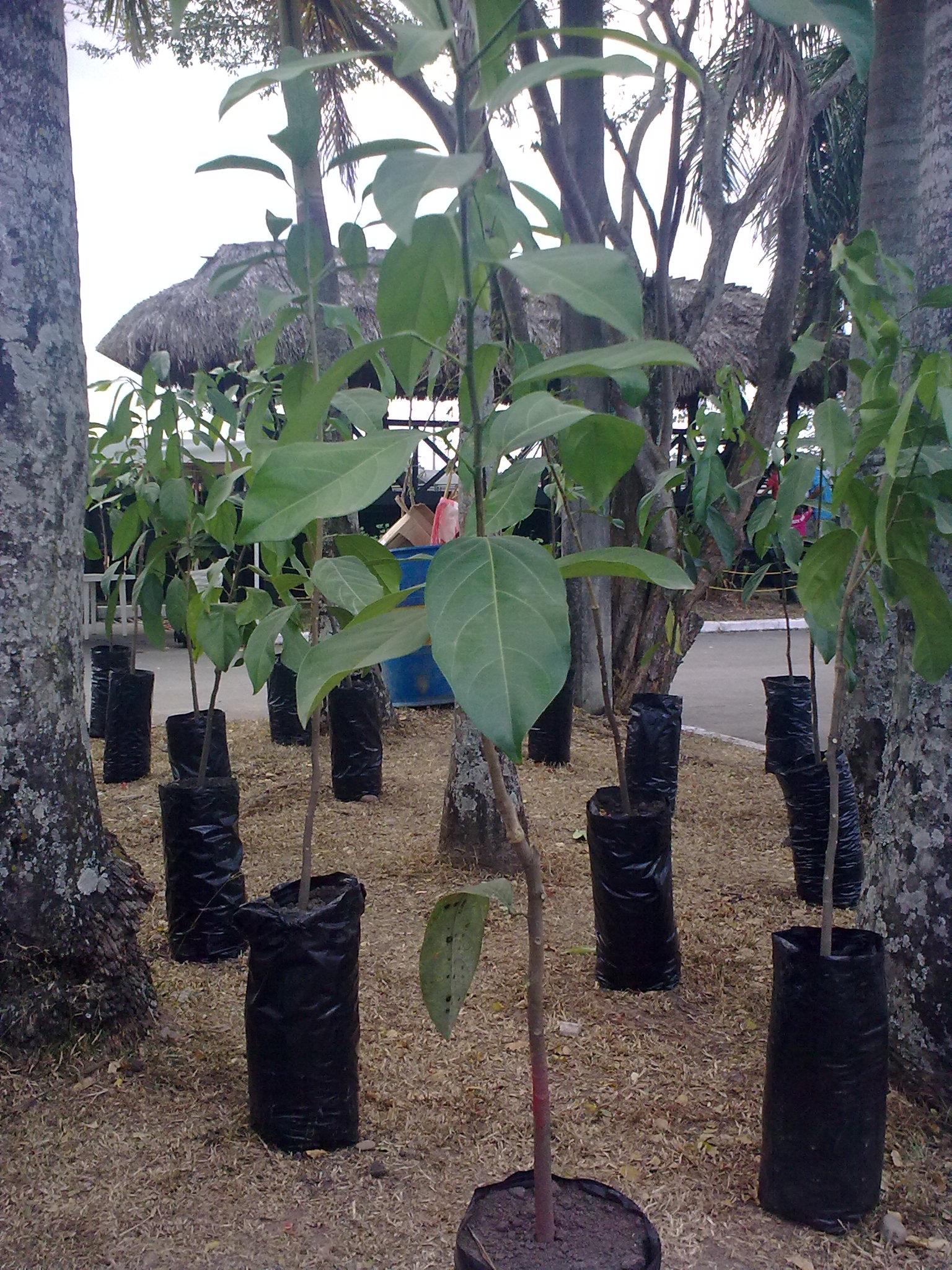 Es un árbol de 30-40 m de altura, 80 cm de DAP y 12 m de diámetro, decopa densa y semiesferica en el bosque natural. En cultivo presenta alturas entre 12-25 m y 20-40 cm de DAP. El fuste es recto, cilíndrico y de base acanalada. La corteza externa es lisa, verde amarillenta con ritidoma que se desprende en placas laminares. Presenta un exudado acuoso blanco que se oxida a cremoso o anaranjado.